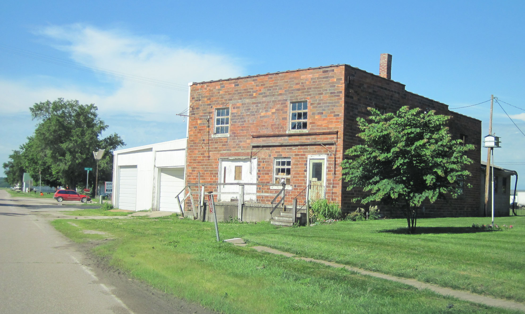 Wever Bill Whittaker (talk) 19:51, 24 June 2009 (UTC)